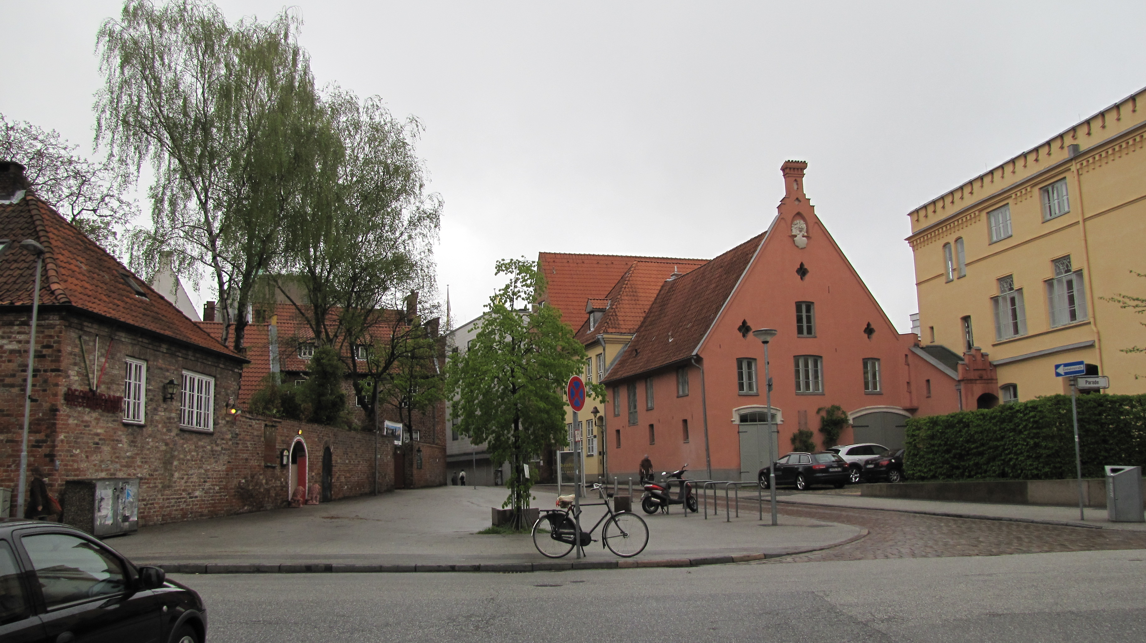 Intersection of Kapitelstrasse, Parade, Pferdemarkt and Dankwartsgrube in Lübeck